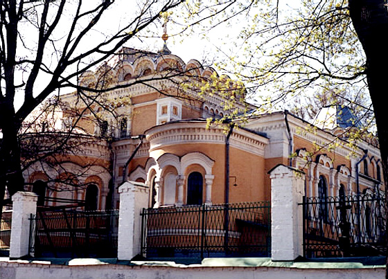 A photo of Pokrova church in Kyiv as it could have been seen during Soviet times